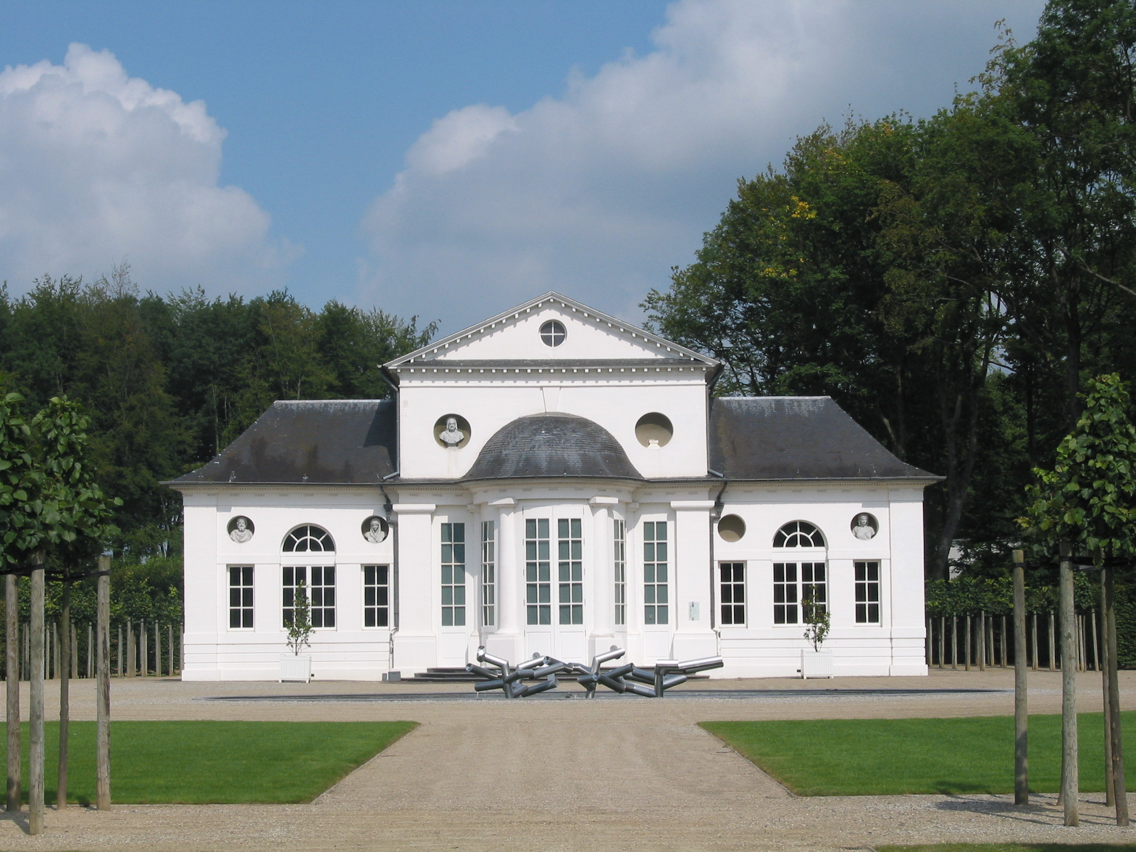 Seneffe (Belgium), castle garden - the small theatre (architect: Charles de Wailly - 1780). Walon: Sinèfe (Bèljike), pârc do tchètsê – li pitit téyâte - (ârchjitèk: Charles de Wailly - 1780).